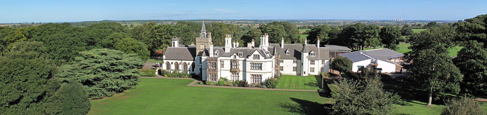 Grace Dieu Manor School